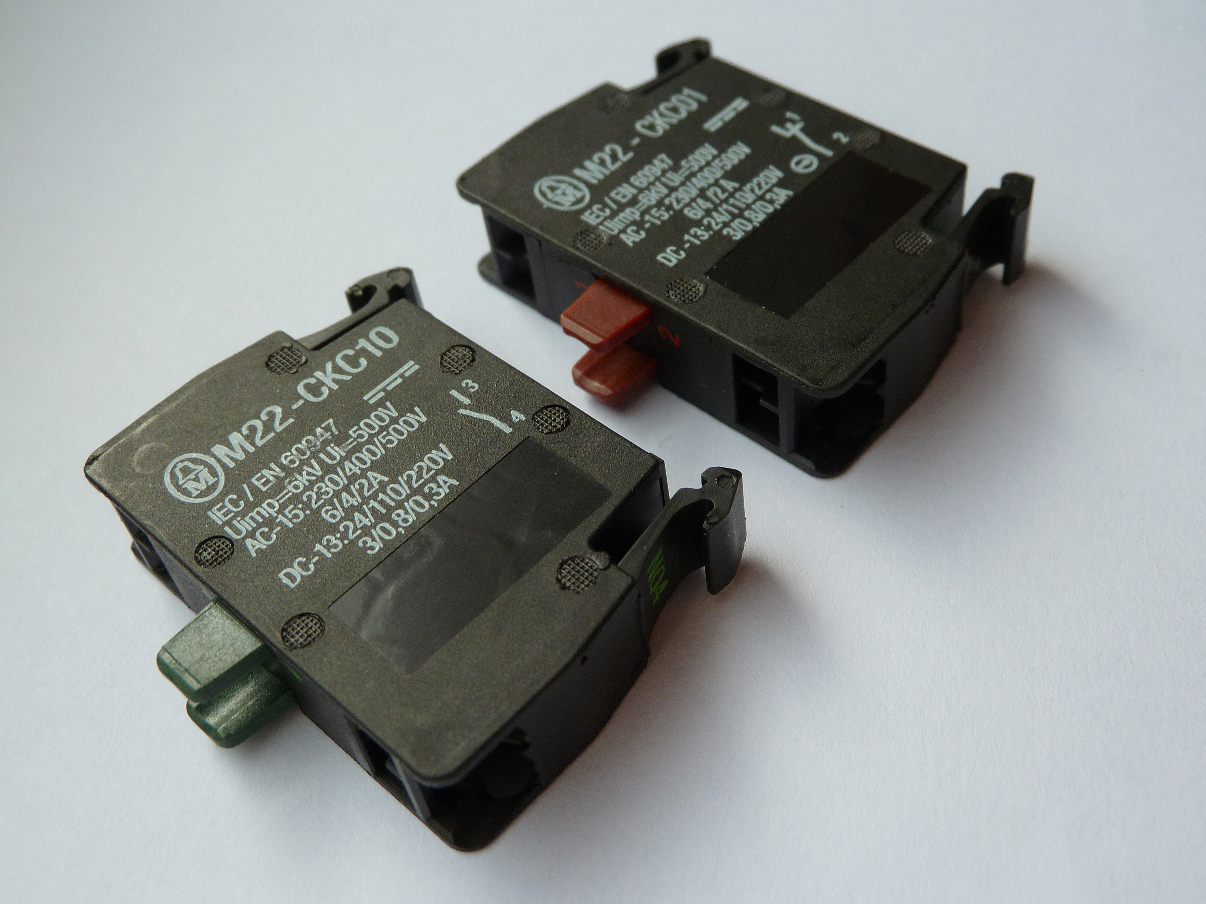 Contact block for switches. Front: no Back: nc